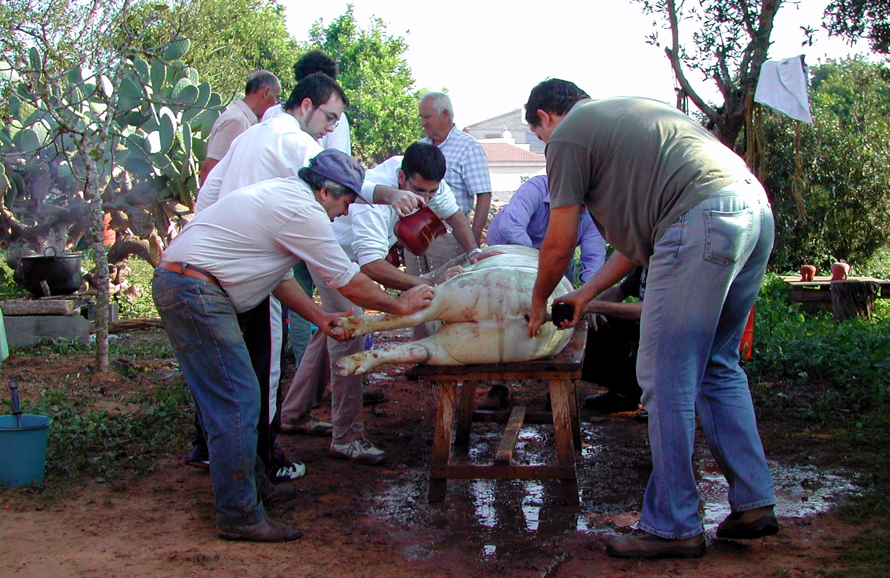 Tradicional pig-killing in Pòrtol